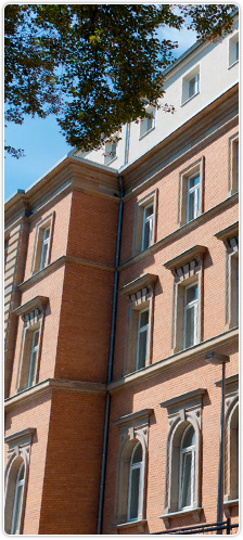 IWM Außenansicht